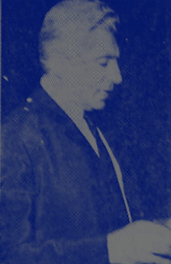 Iranian politician - Pahlavi